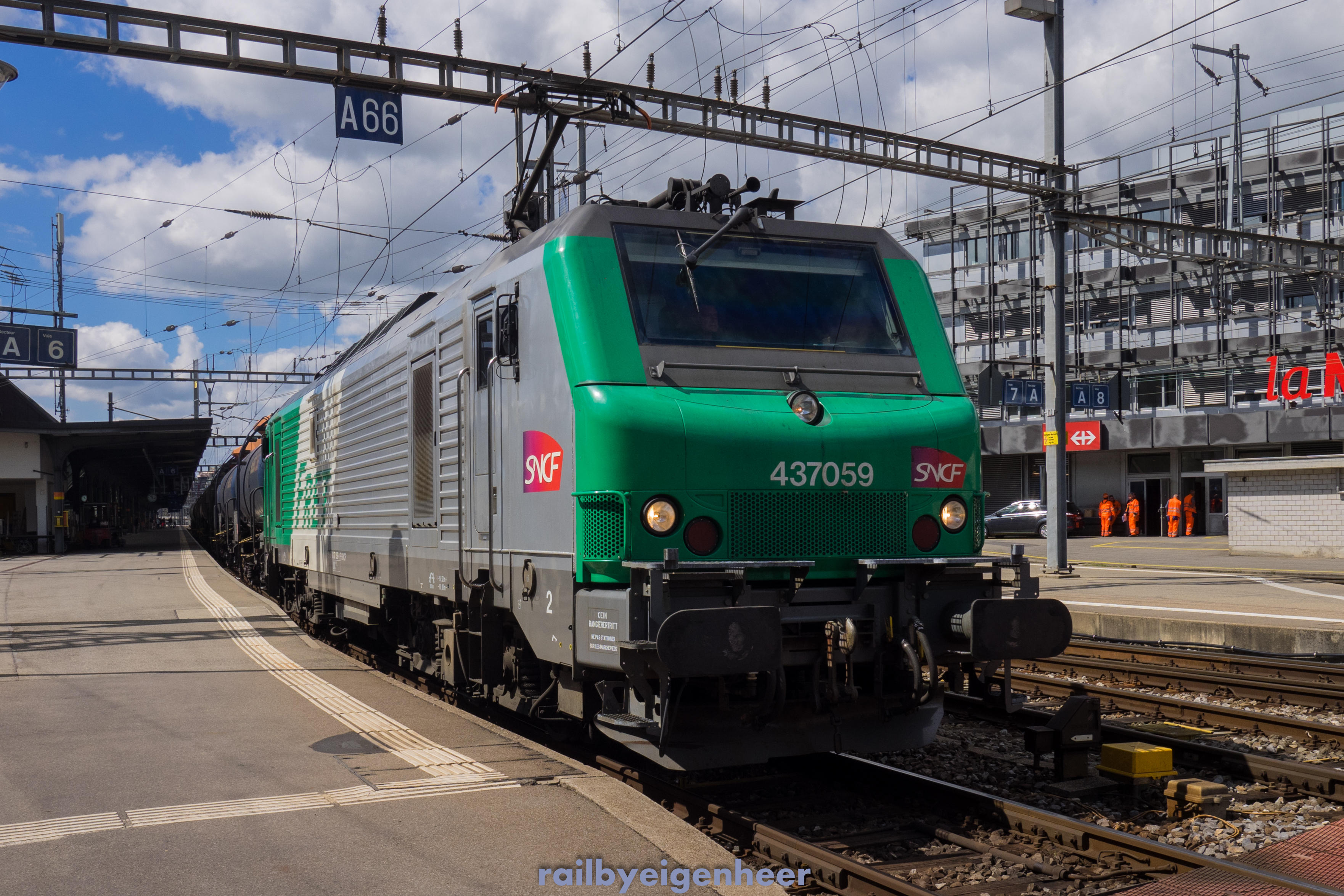 Genève Cornavin 27.04.16